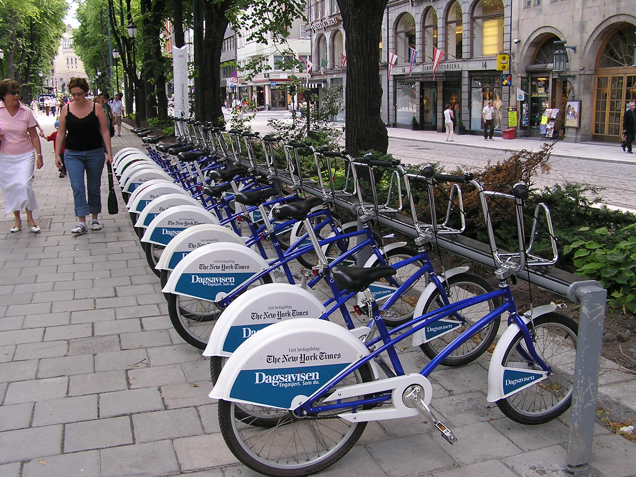 Bycycles in Oslo.P7020049